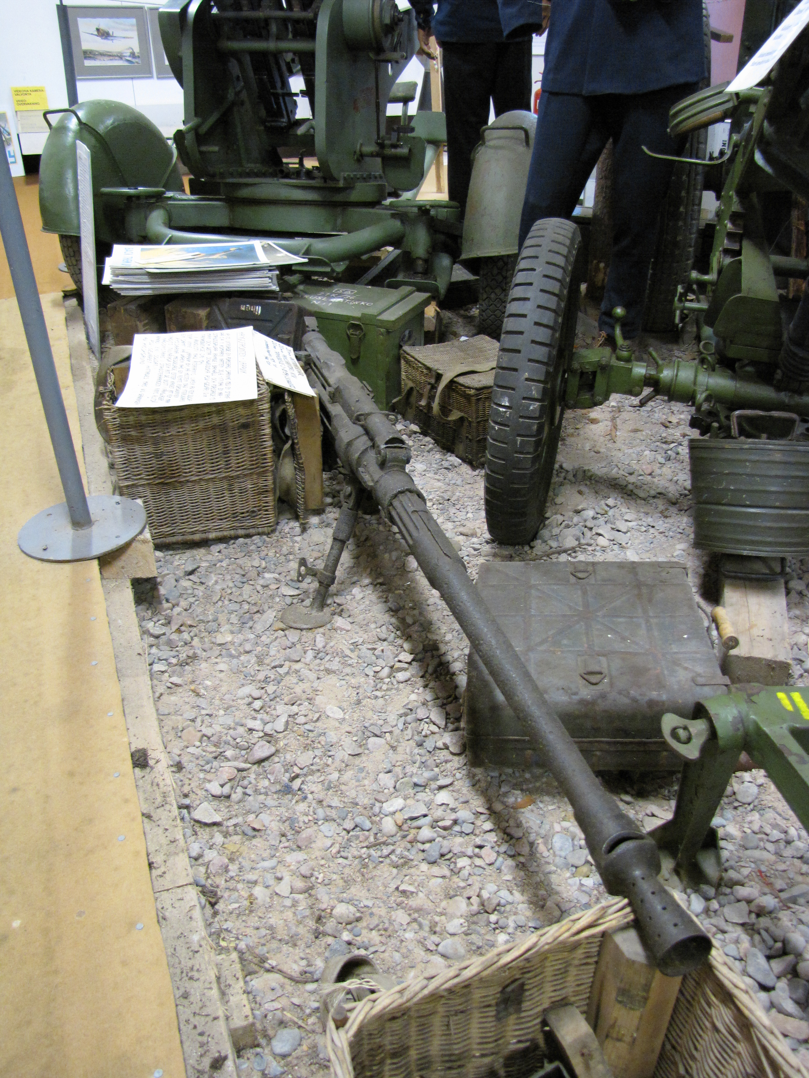 Solothurn S-18/154 anti-tank rifle in Hanko Front Museum. A variant of S-18/100, this rifle was one of twelve purchased by Finland from Switzerland. The weapon was used by Finnish infantry regiment 13 and lost early in Continuation War on the night between 30.6-1.7.1941 in Hanko front. Found in 1985 during construction work.